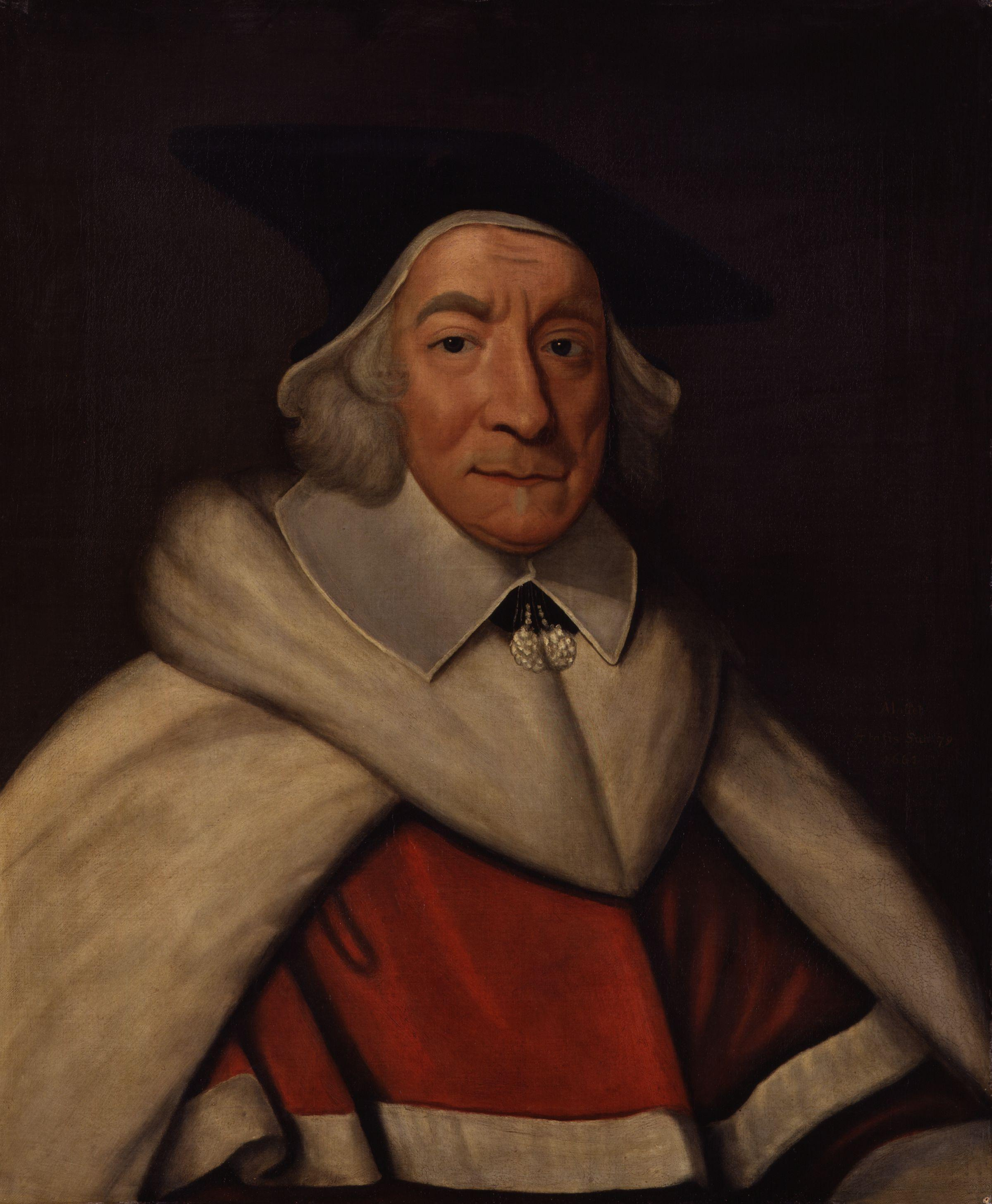 Sir Thomas Malet, by unknown artist. (1582-1665) was a judge, Solicitor general and a politician. All images in this batch are listed as "unknown author" by the NPG, who is diligent in researching authors, and was donated to the NPG before 1939 according to their website.